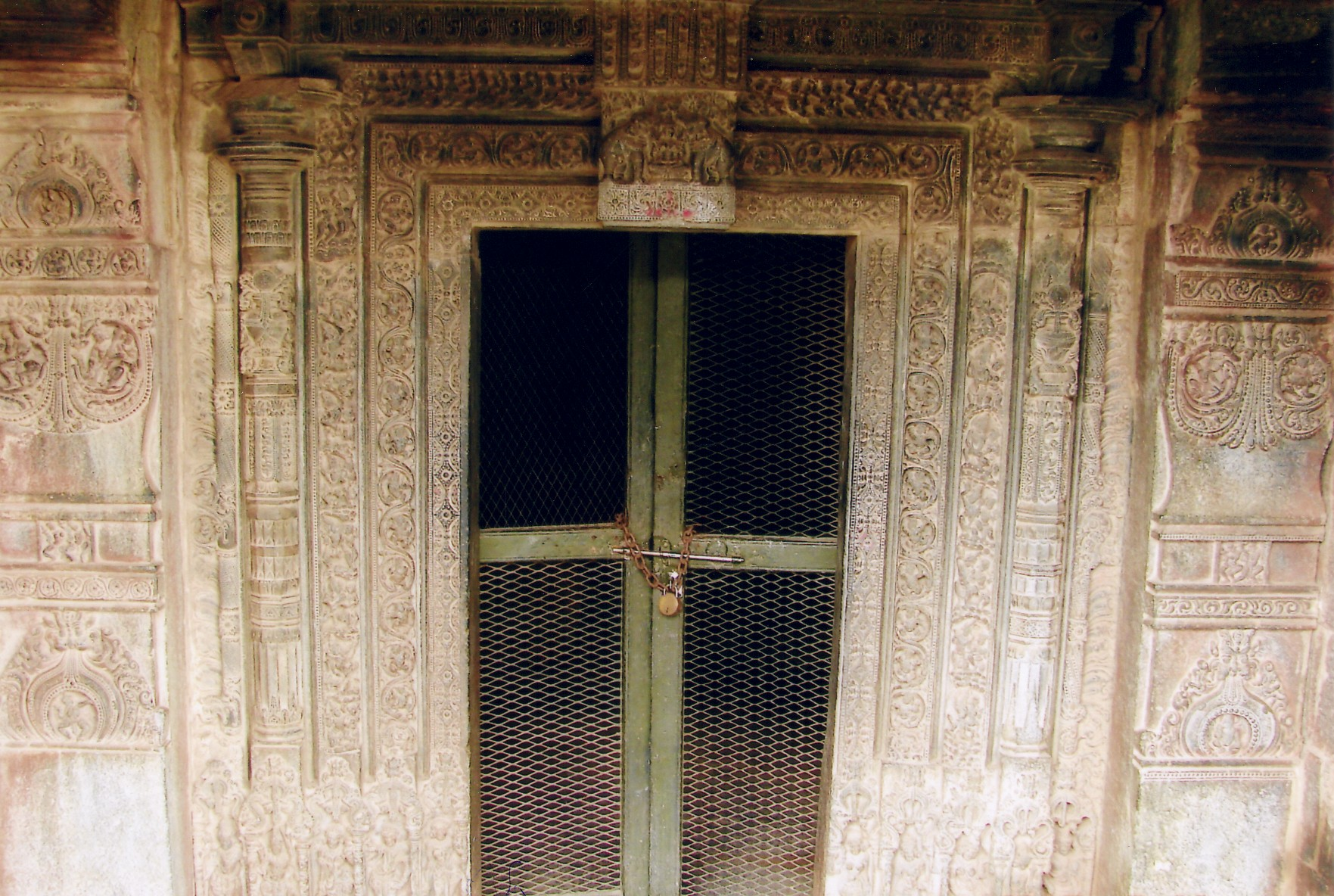 The image was taken at the Kasivisvesvara temple (also spelt Kashivishveshvara or Kasivishveshvara) at Lakkundi, Karnataka state, India. The temple was built in the 11th century by the Western Chalukya Empire architects during the reign of king Vikramaditya VI